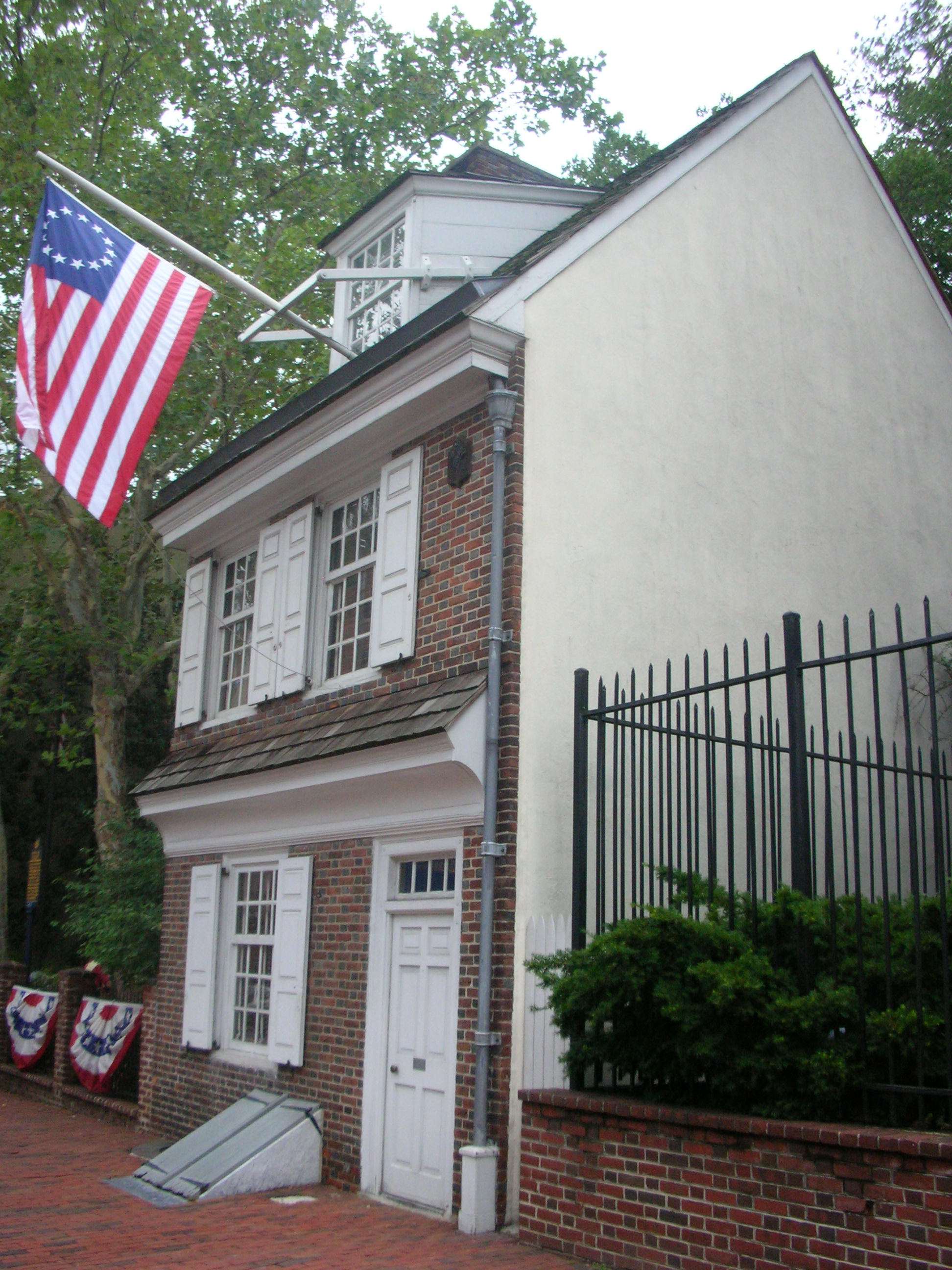 Betsy Ross House in Philadelphia, USA